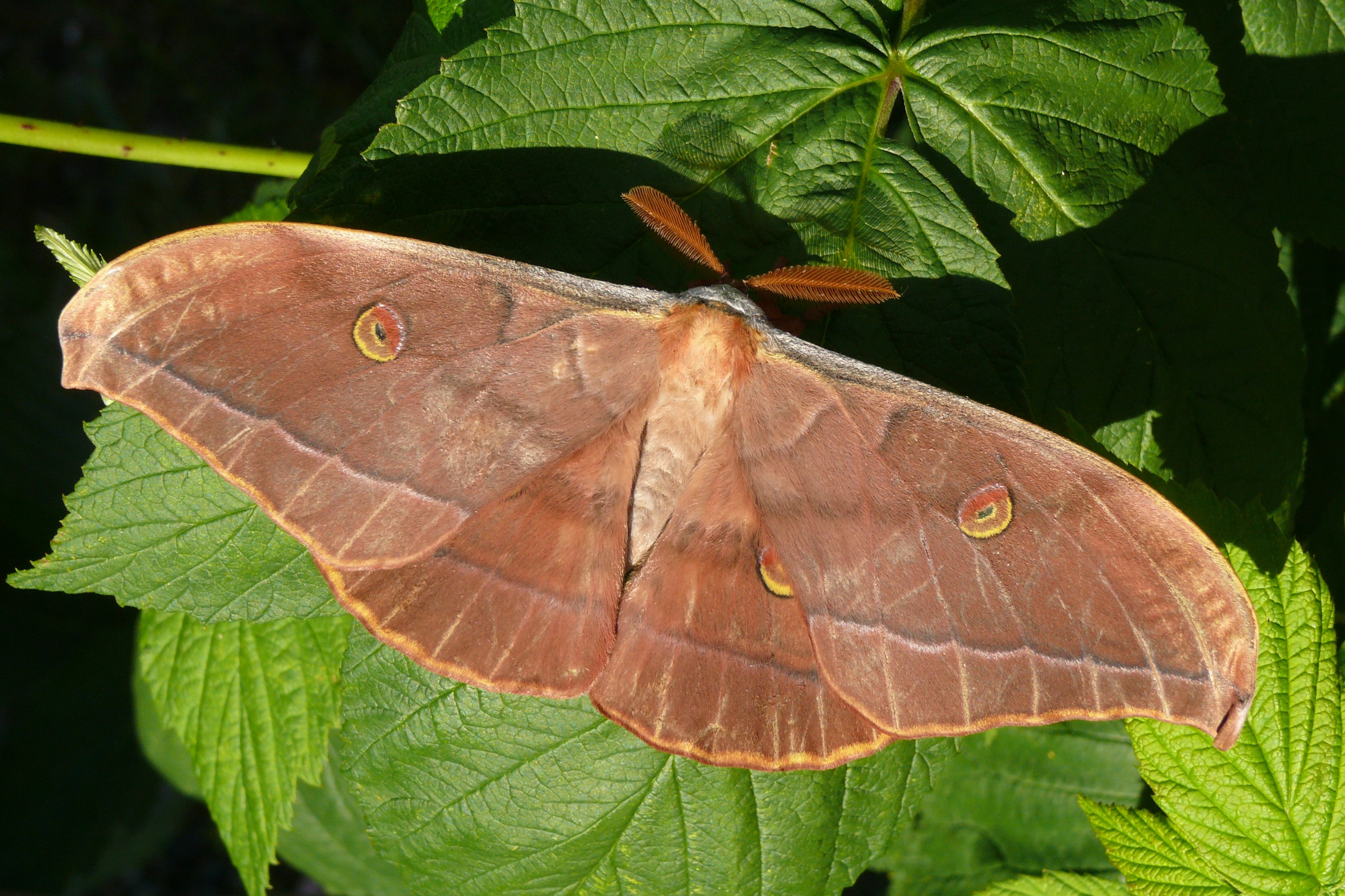 Male Japanese Silk Moth or Japanese Oak Silkmoth (Antheraea yamamai)